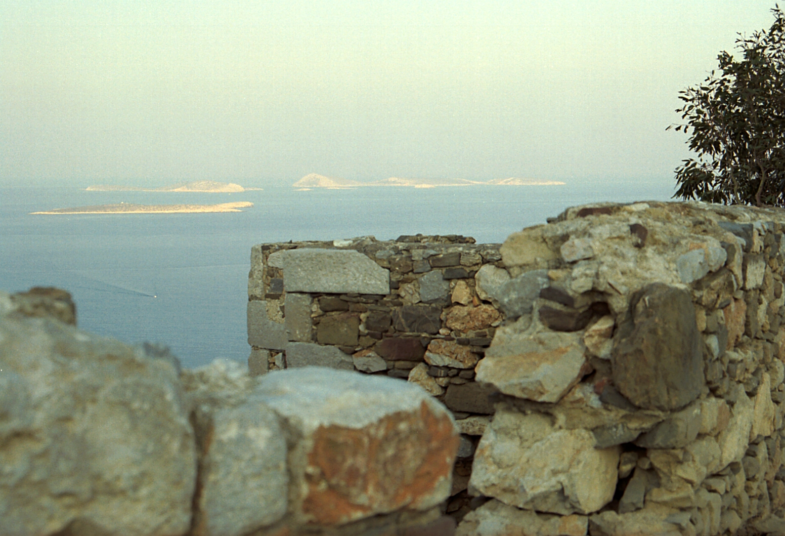 The Isles of Agia Kyriaki, Koutsomitis and Kounopi from the castle (Kastro) in Chora of Astypalaia.